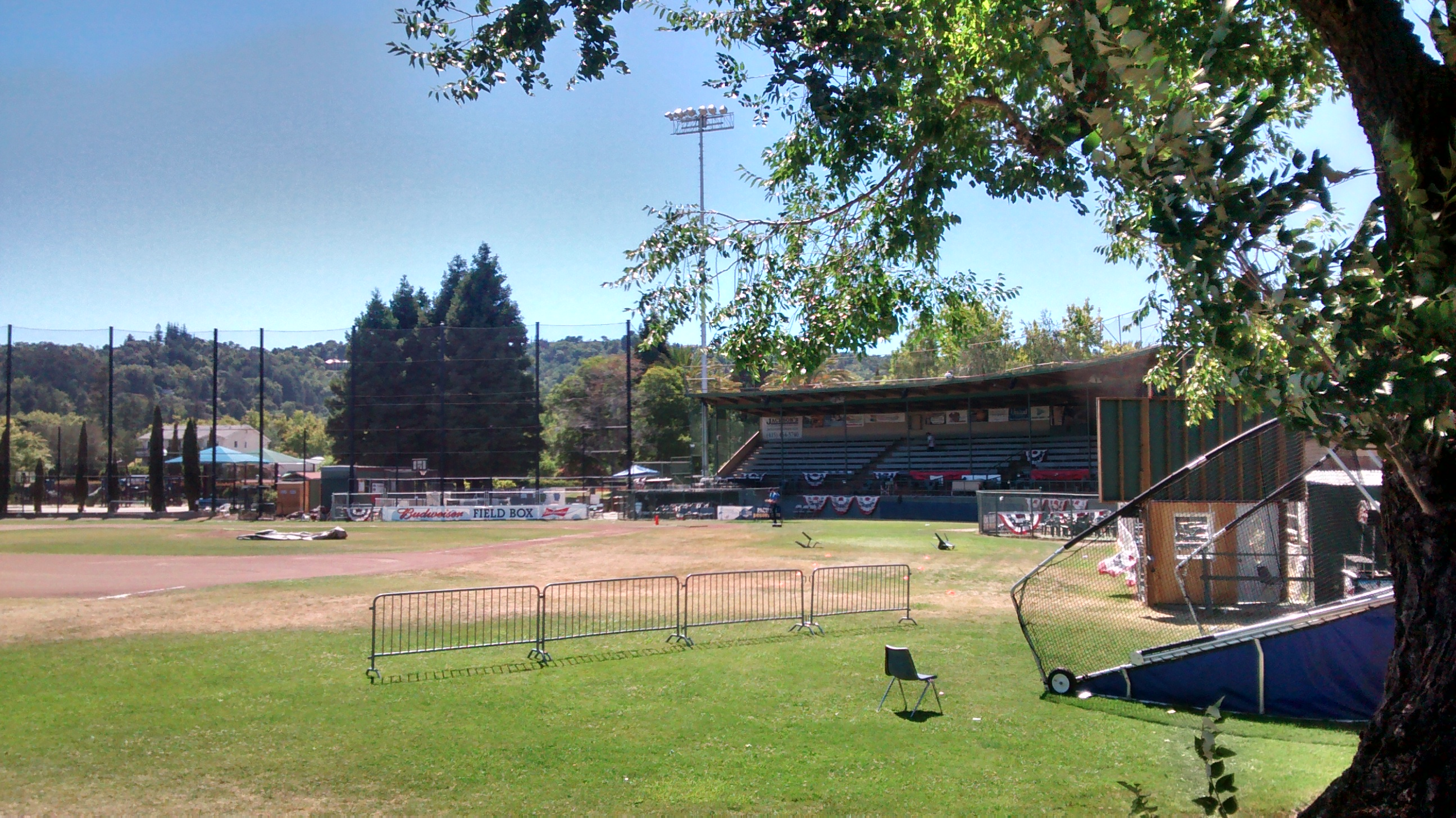 A picture of Albert Park, San Rafael